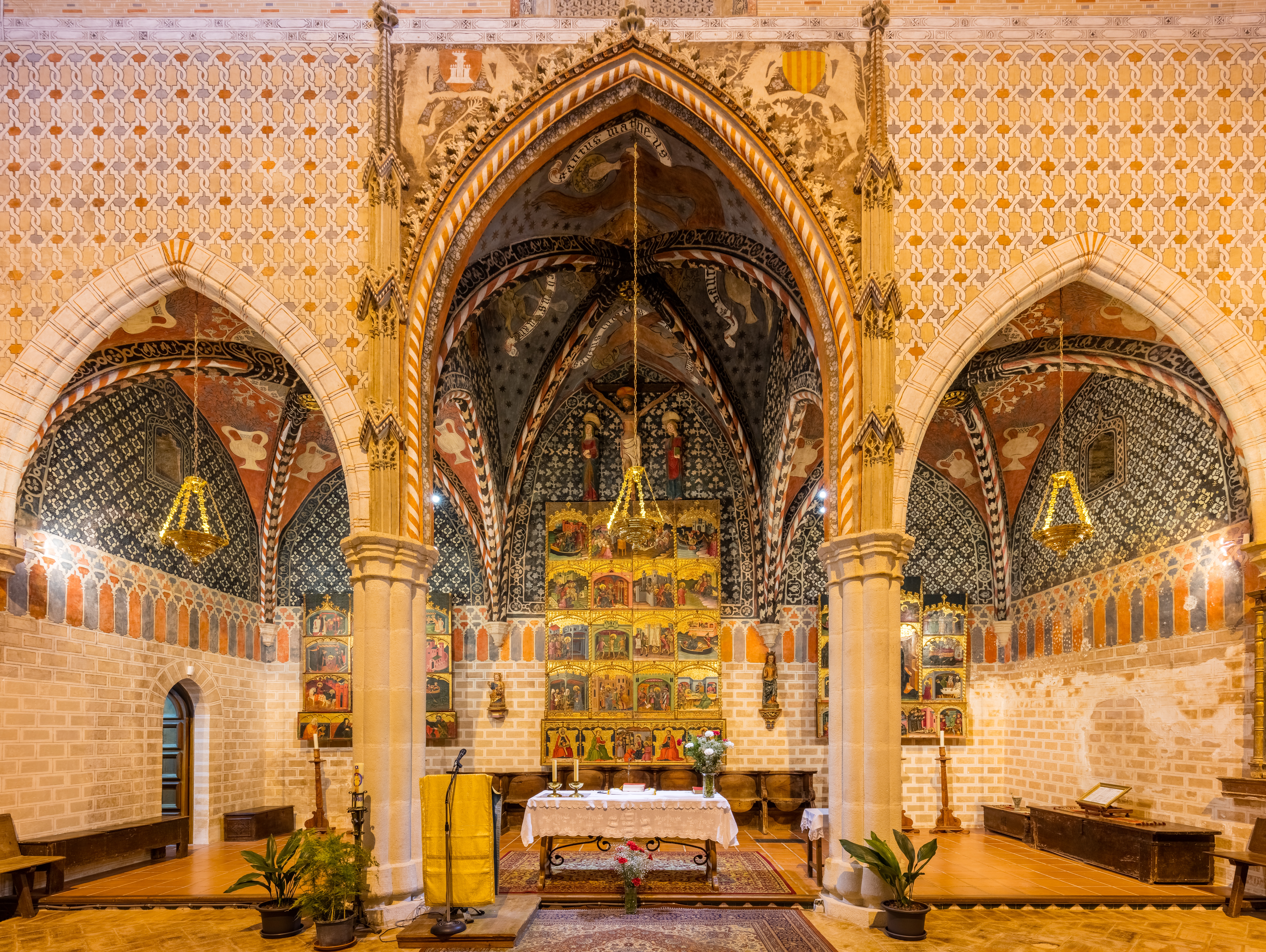 Altar of the church of St Felix, Torralba de Ribota, province of Zaragoza, Spain. The church, of mudéjar and late gothic style was built between 1367 and 1420. The church is a national heritage monument in Spain (known as Bien de Interés Cultural) since 2006.